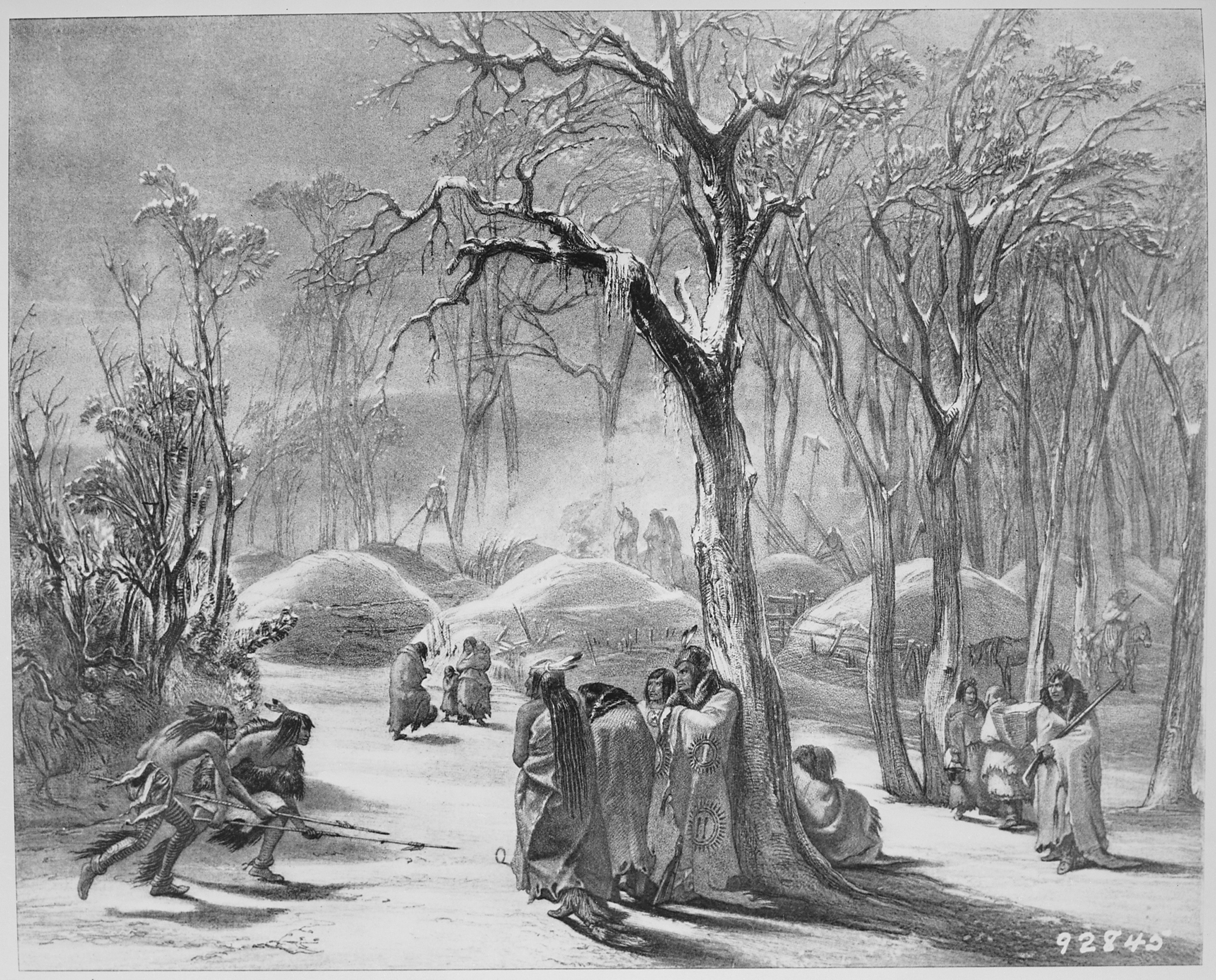 General notes: Artwork.